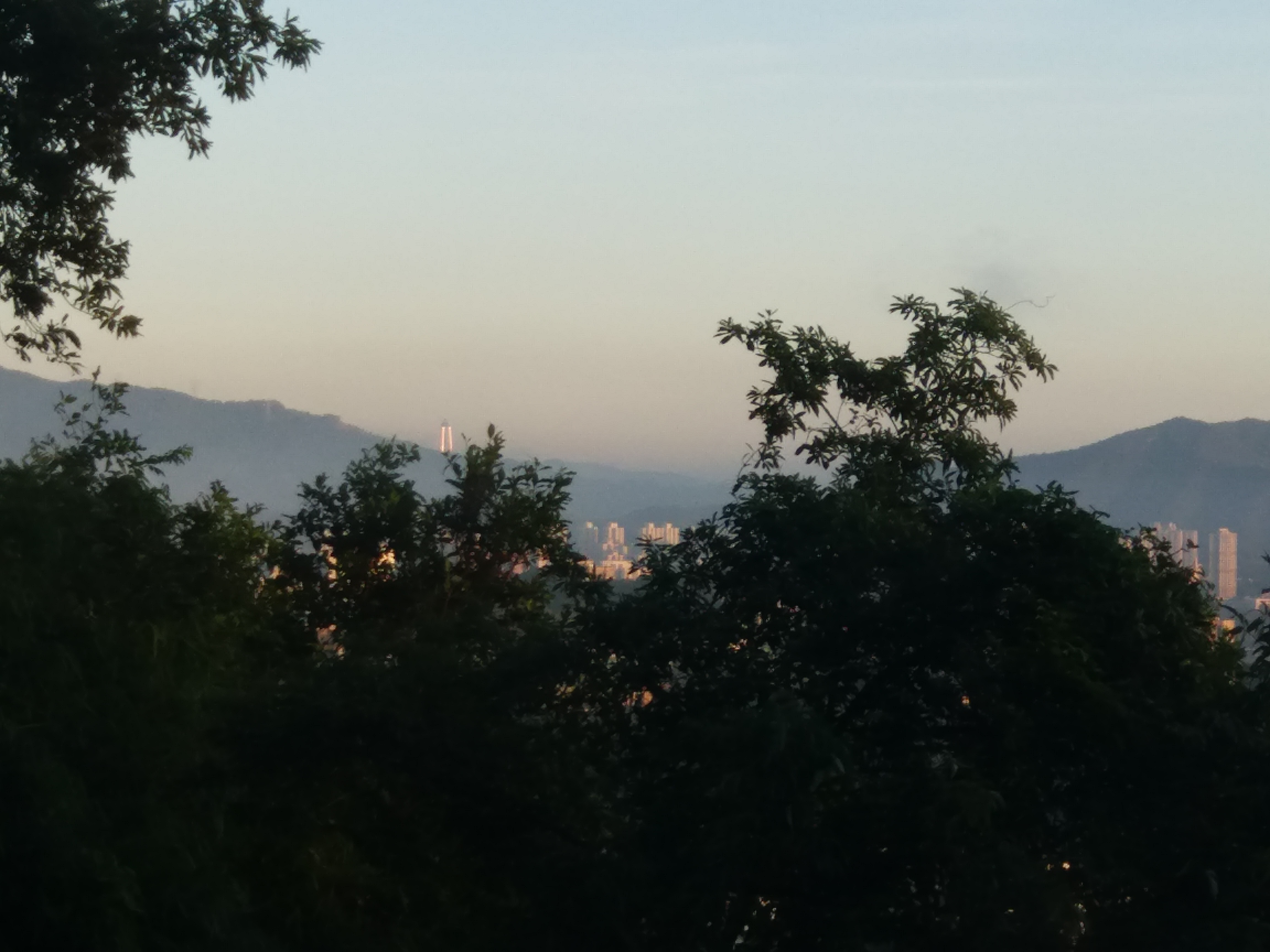 圖中反光的尖錐形建築物，即為平安金融中心